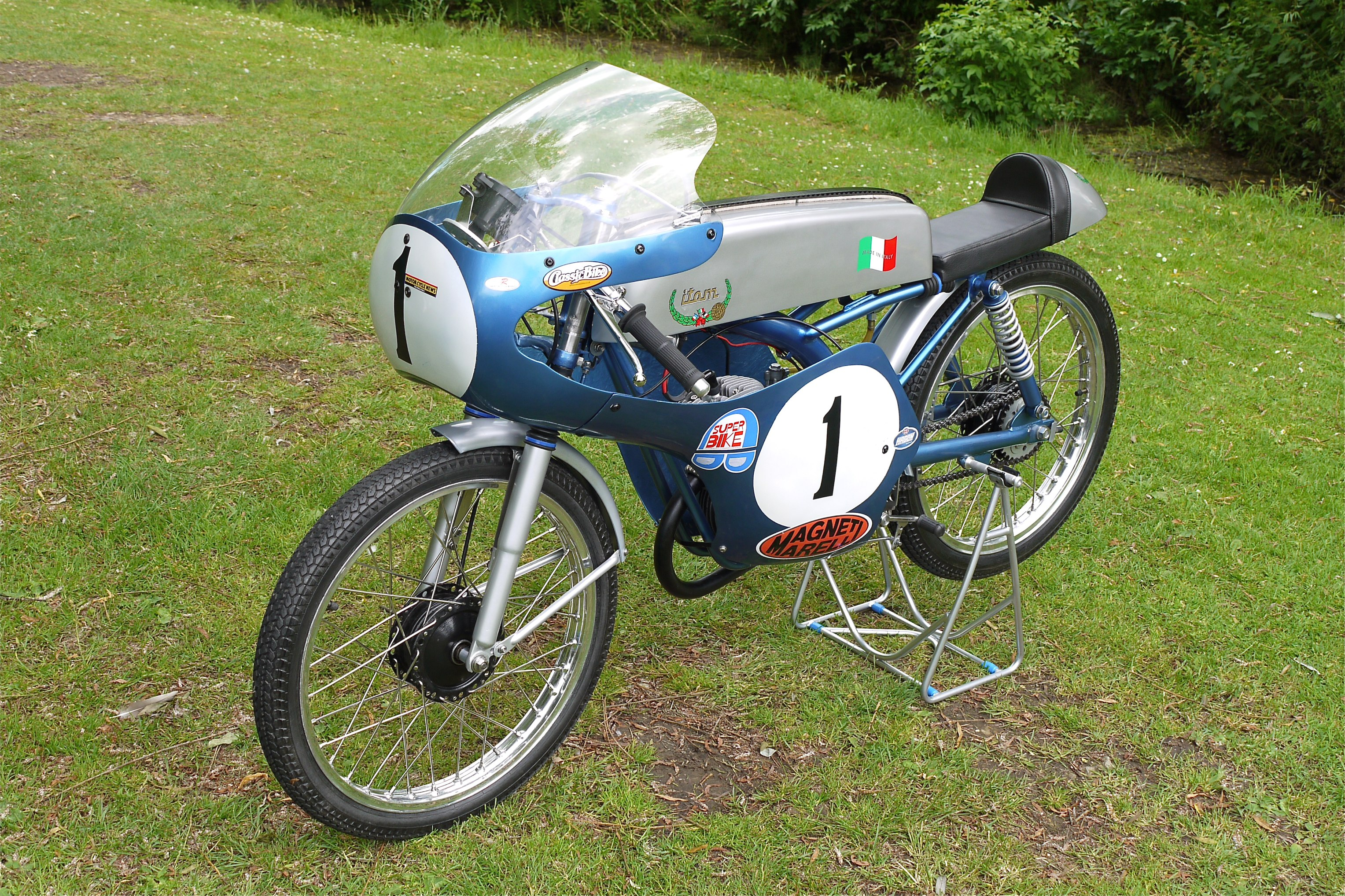 Itom 50cc Racing Motorcycle exposed at Bourne classic car show, Lincolnshire.